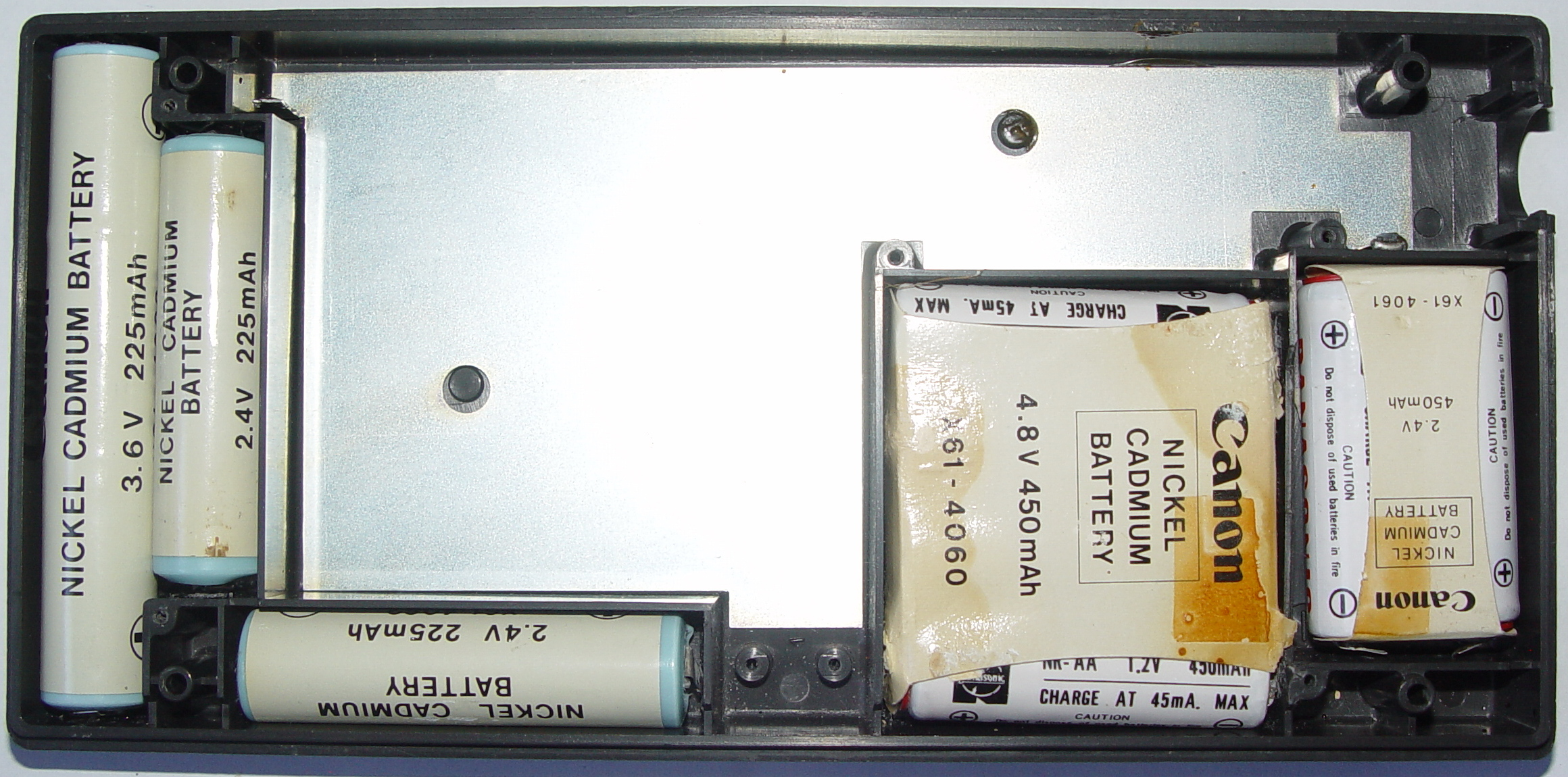 The Canon Pocketronic is the first "handheld" battery-powered printing electronic calculator. The bottom half of the case contains the Nickel-Cadmium battery packs that provide portable power for the calculator. The NiCd cells combined to provide the +7.2V and -8.4V supplies that the machine operates on.